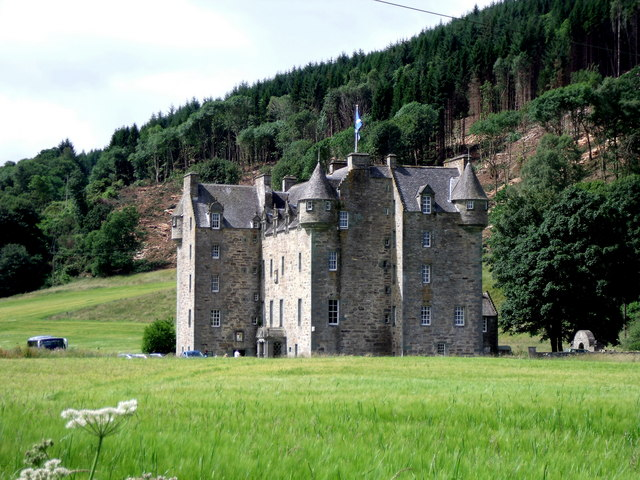 Castle Menzies